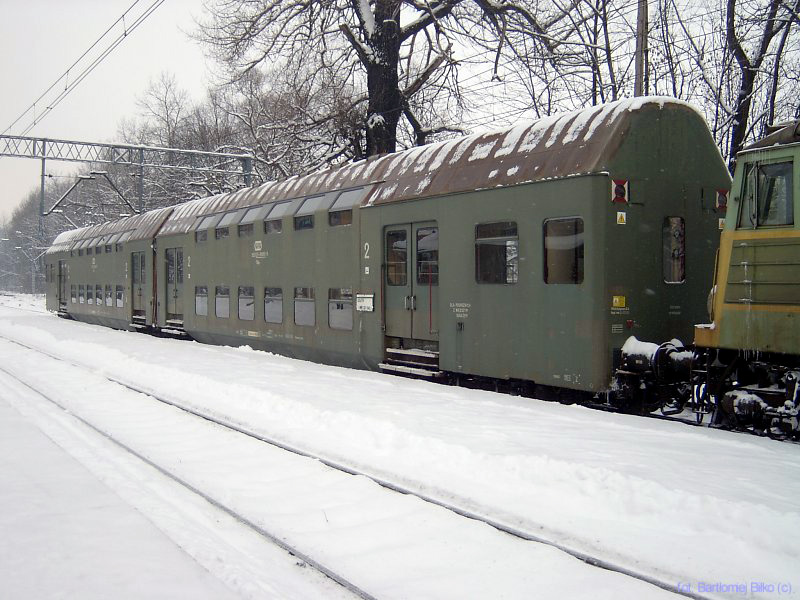 PKP Bhp (Bipa) double-decker passenger car (made in East Germany)